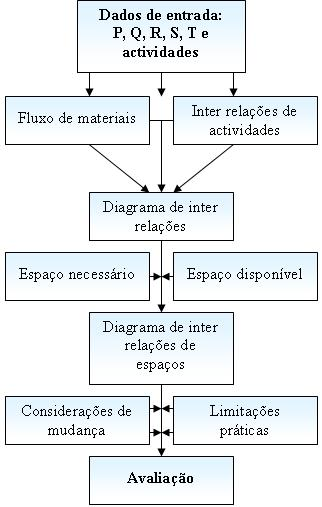 SLP